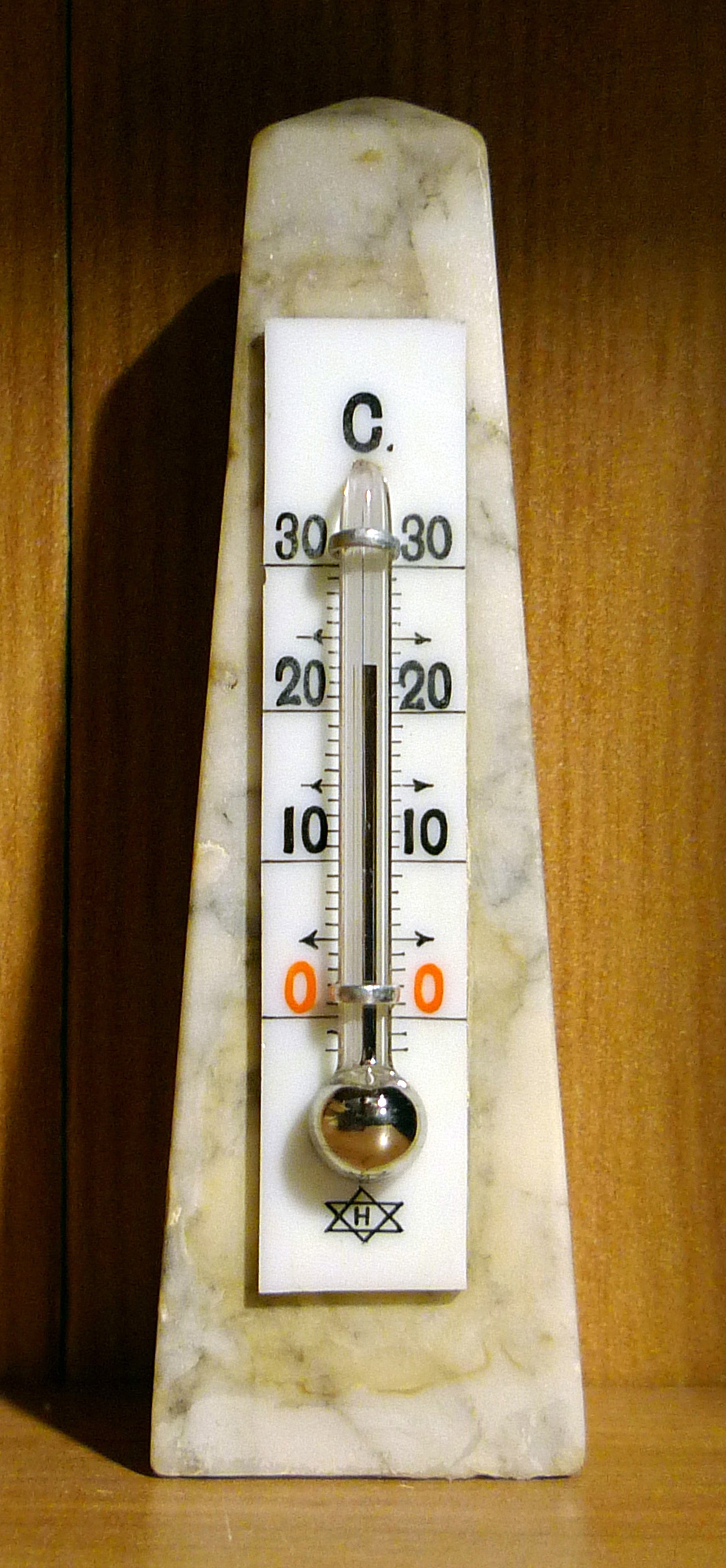 Mercury-in-glass thermometer for measurement of room temperature. Celsius scale.